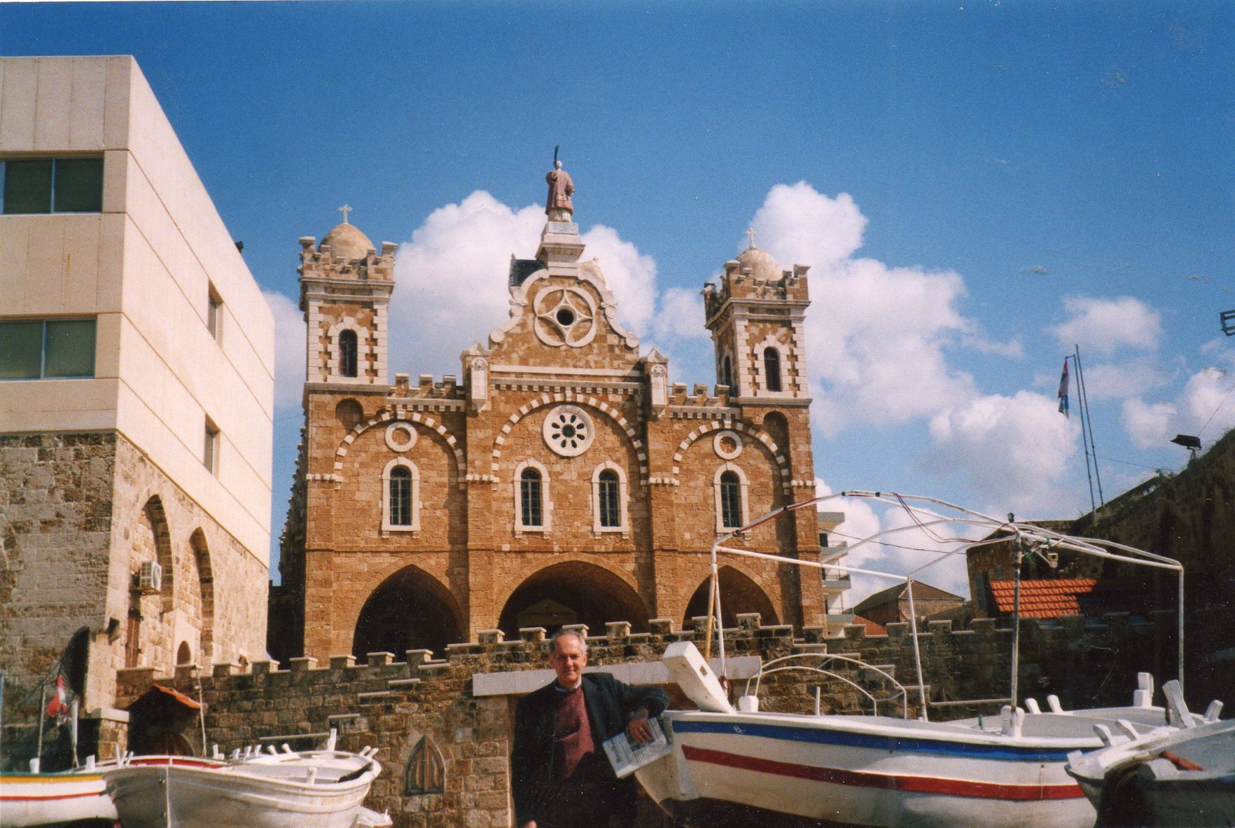 St. Estaphan Church in Batroun